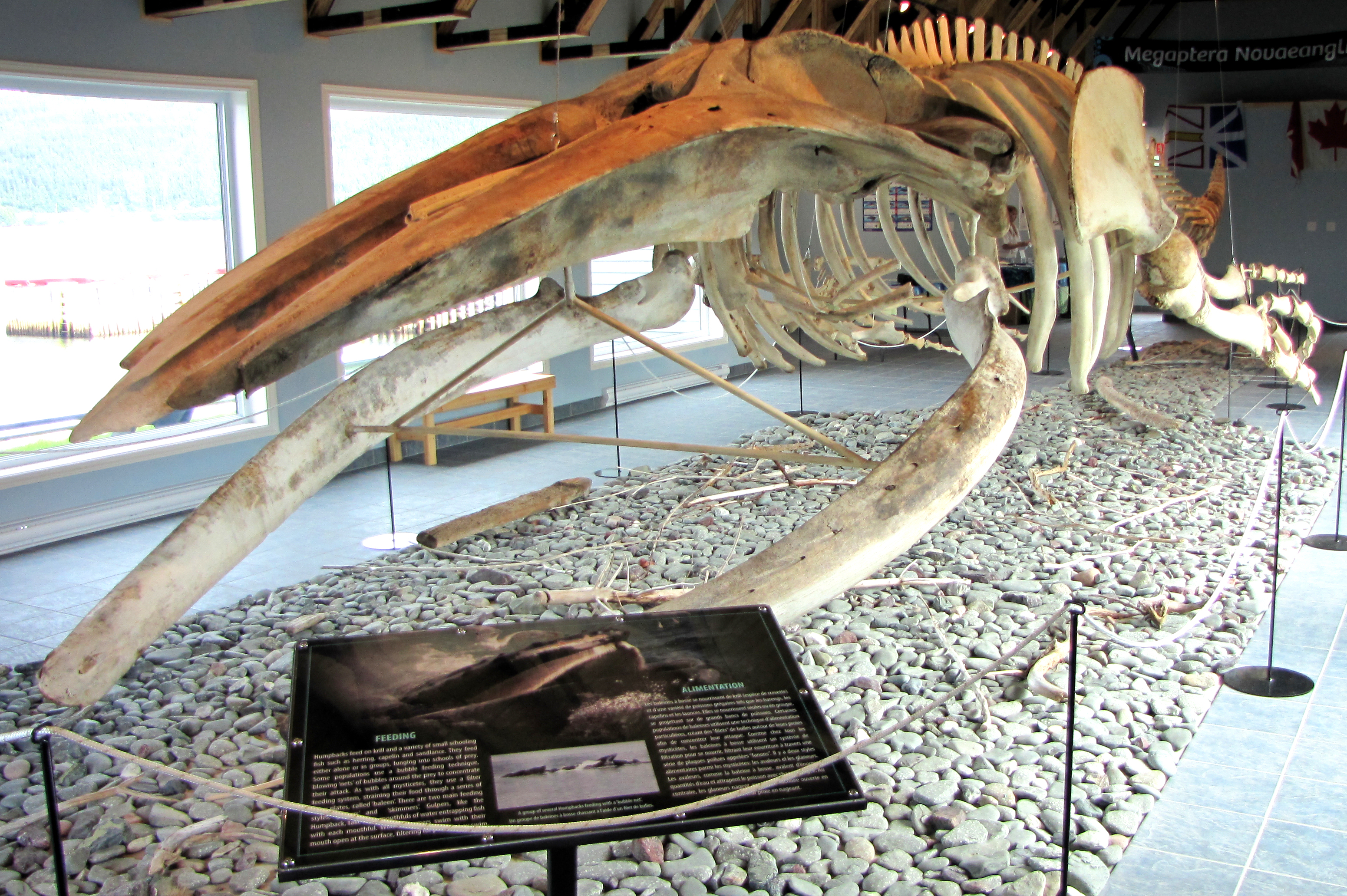 Humpback Whale (Megaptera novaeangliae), skeleton, in museum at King's Point, Newfoundland and Labrador, Canada